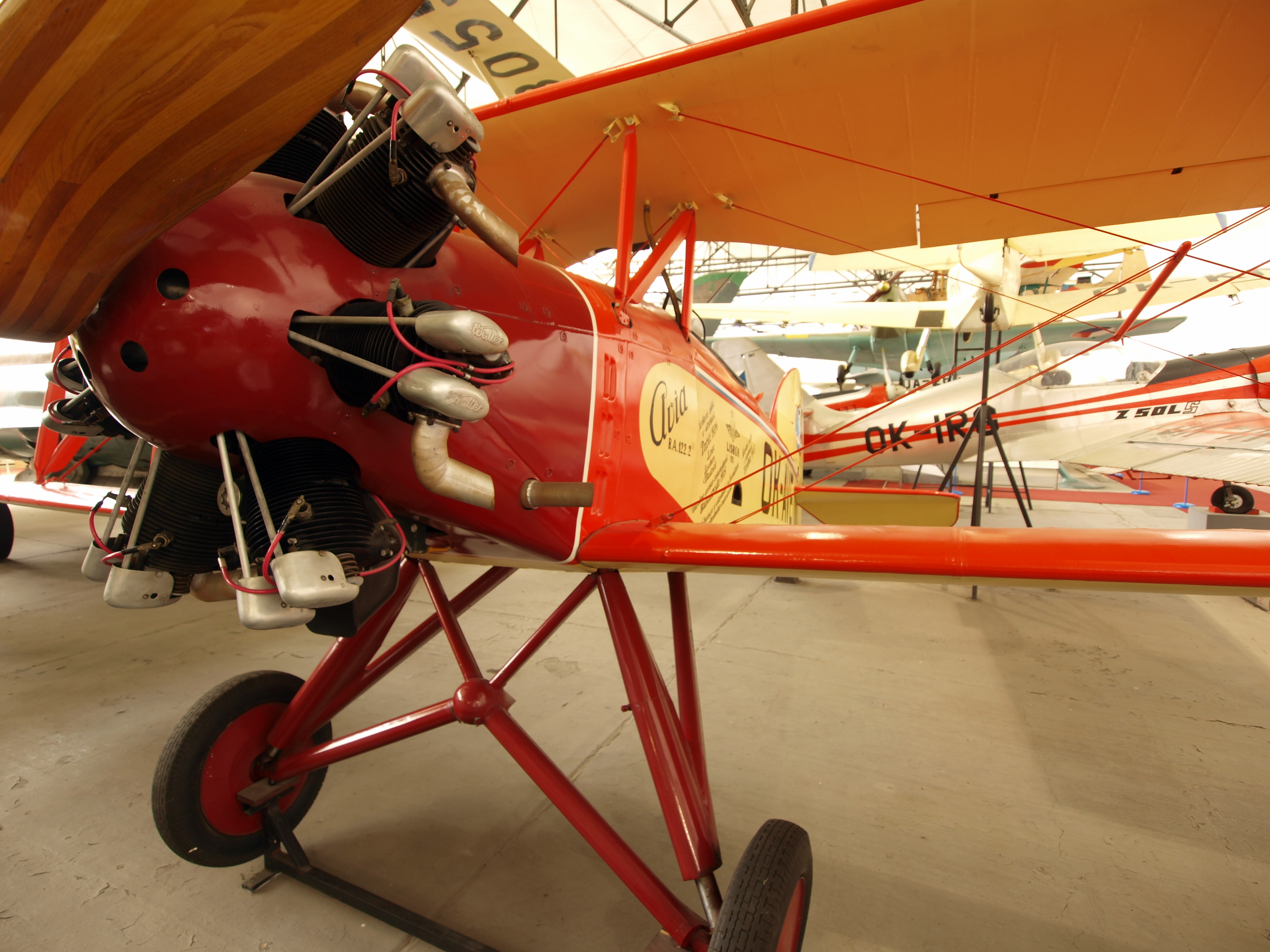 Avia Ba-122 (OK-AVE). Photograph taken without a tripod (was not allowed!).